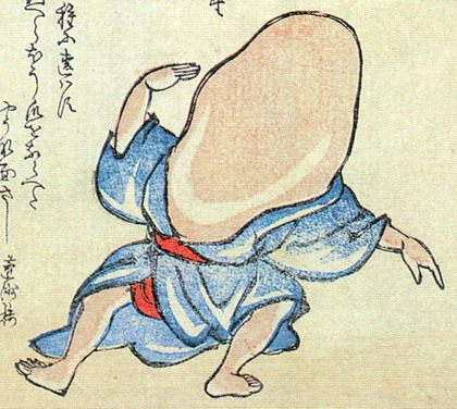 Noppera-bō (a faceless ghost) from Kyōka Hyaku Monogatari